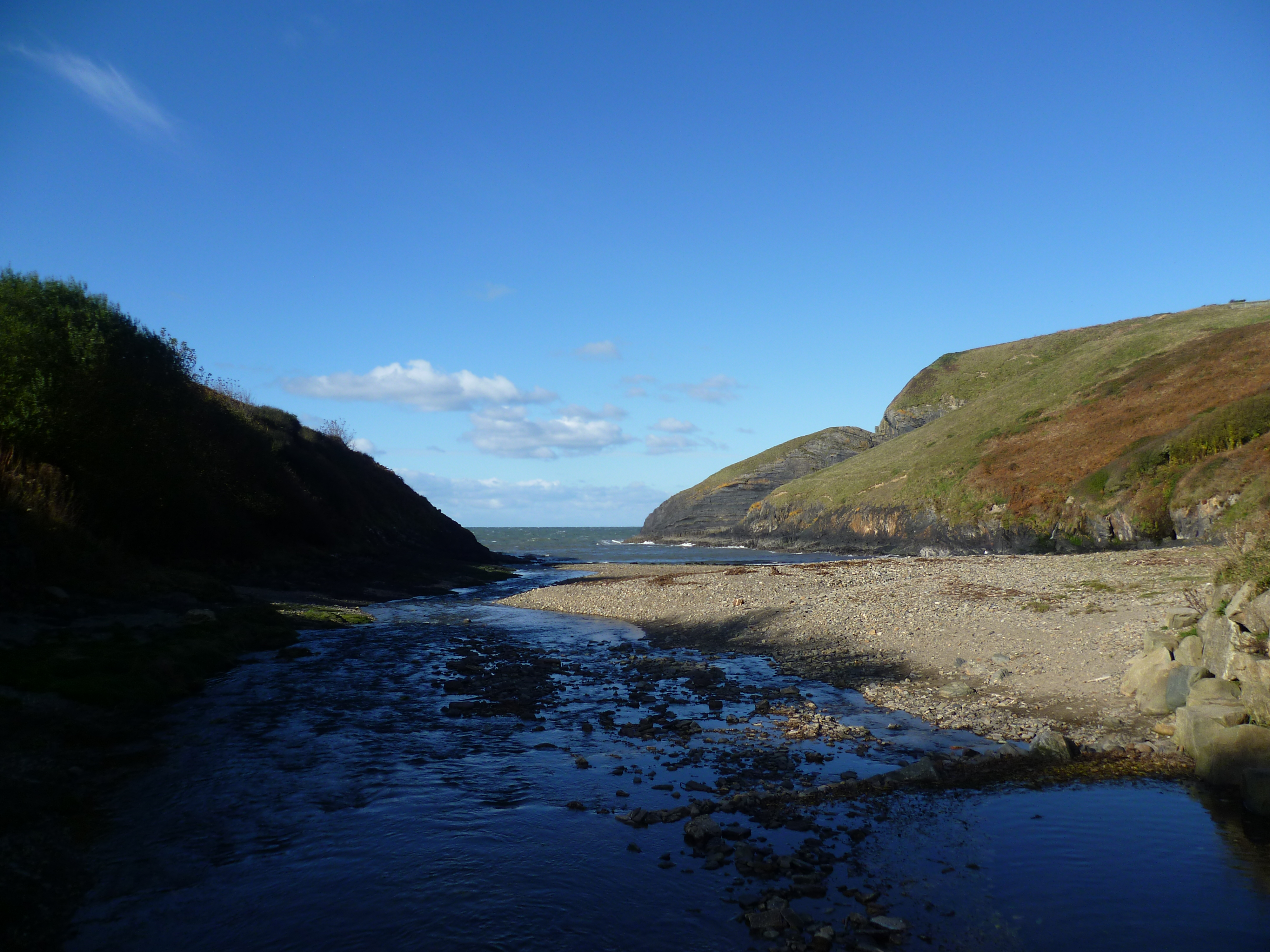 Ceibwr Cove, Pembrokeshire, looking out in Ceibwr Bay